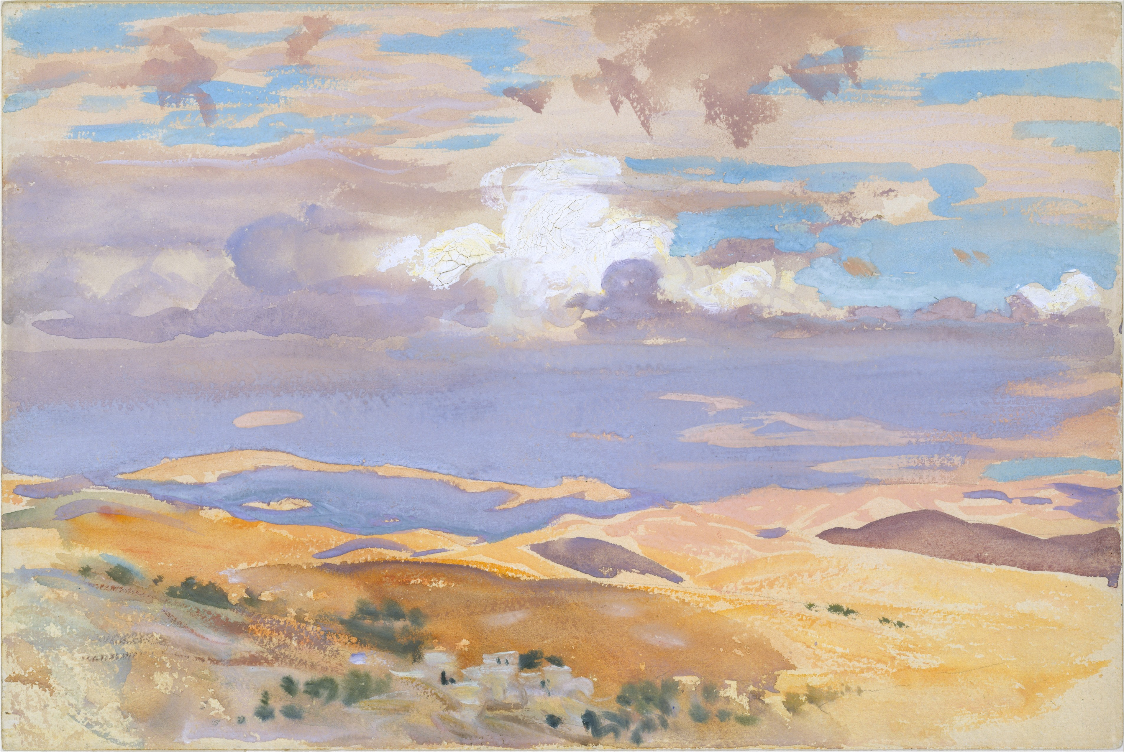 Watercolor; Drawings